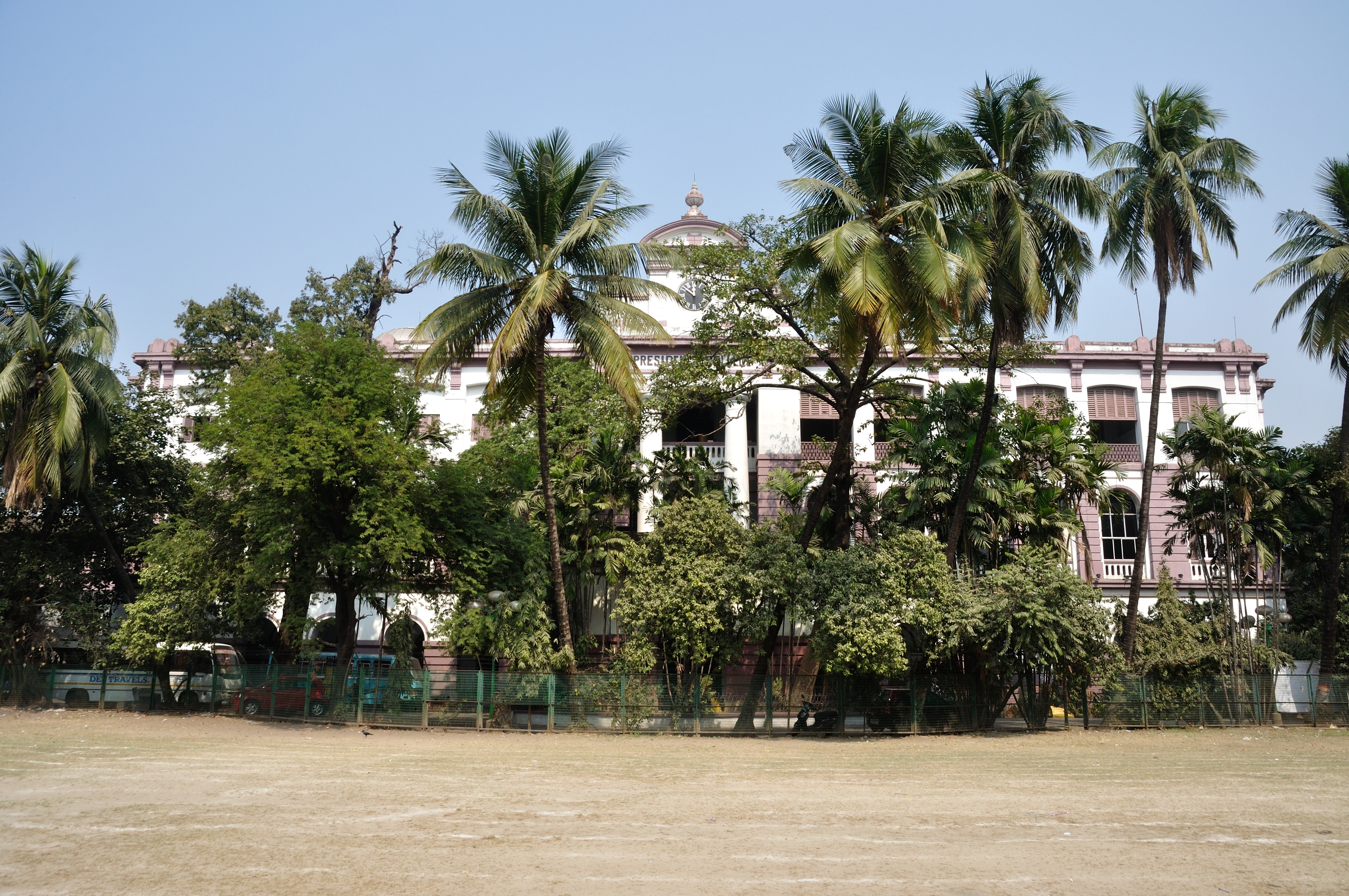 Photographed in Kolkata.